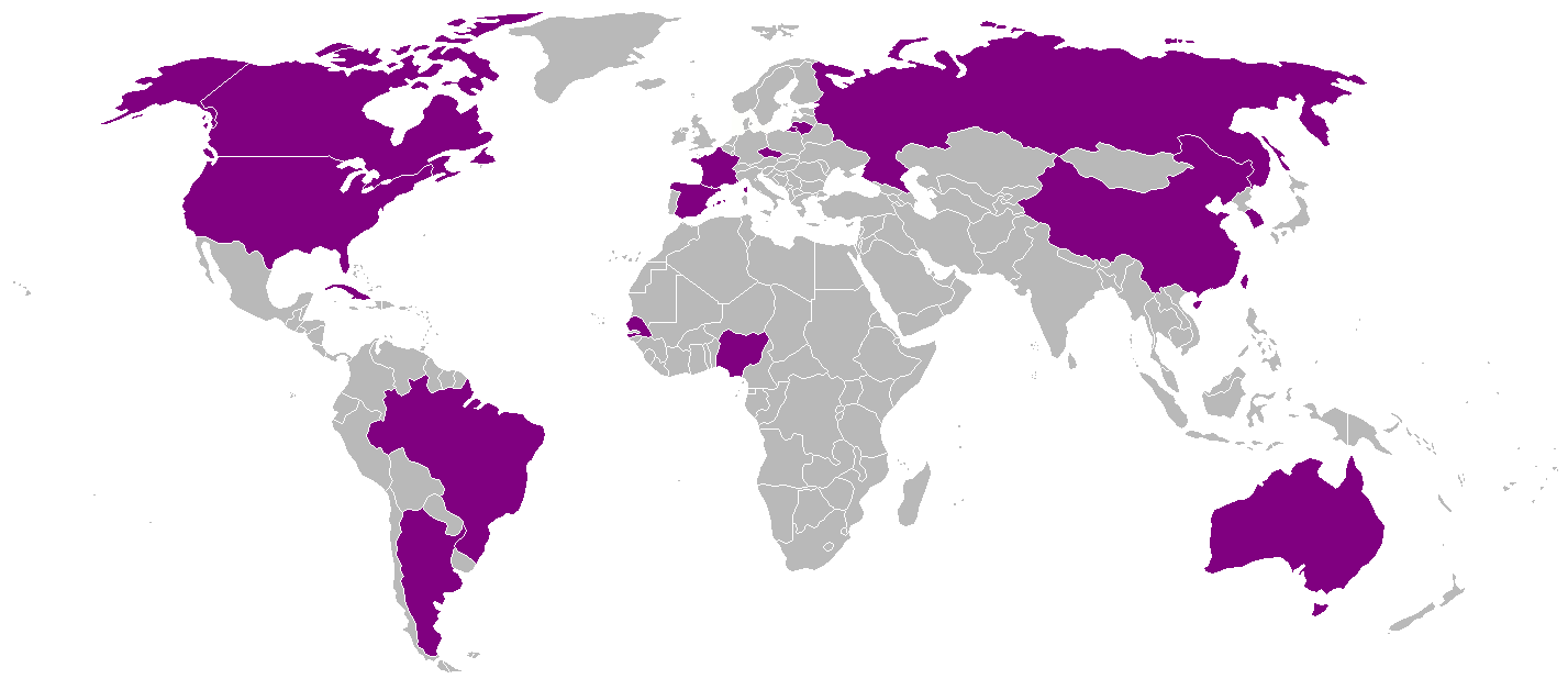 Les nations représentées au Championnat du monde de basket féminin 2006 Shows teams of FIBA basketball World Championship for Women Brazil'2006 on a world map